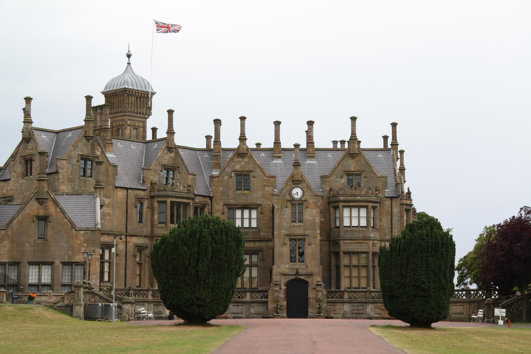 Brownlow House aka Lurgan Castle. Elizabethan style mansion